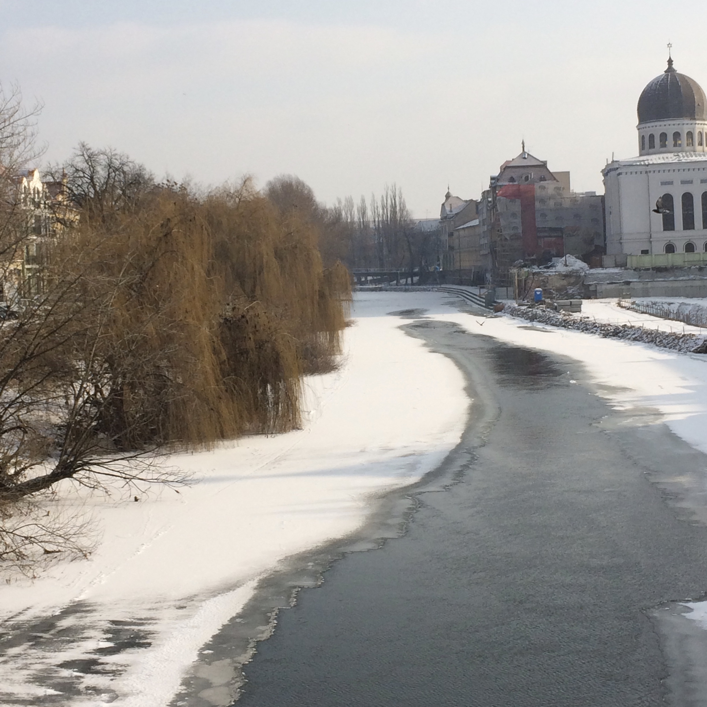 The Crişul Repede River in the winter of 2017